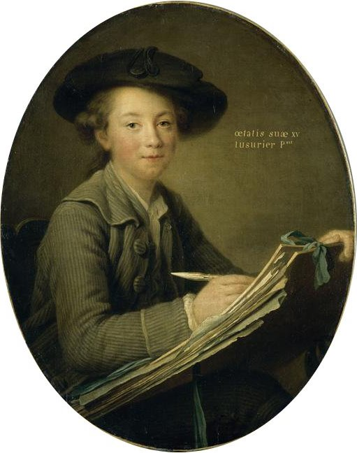 Depicted person: Jean-Germain Drouais (1763–1788), French history painter; son of the painter Francois-Hubert Drouais